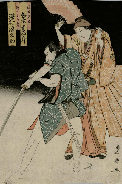 The actors Sawamura Gennosuke and Matsumoto Koshiro dueling in a night scene with a sword and open fan